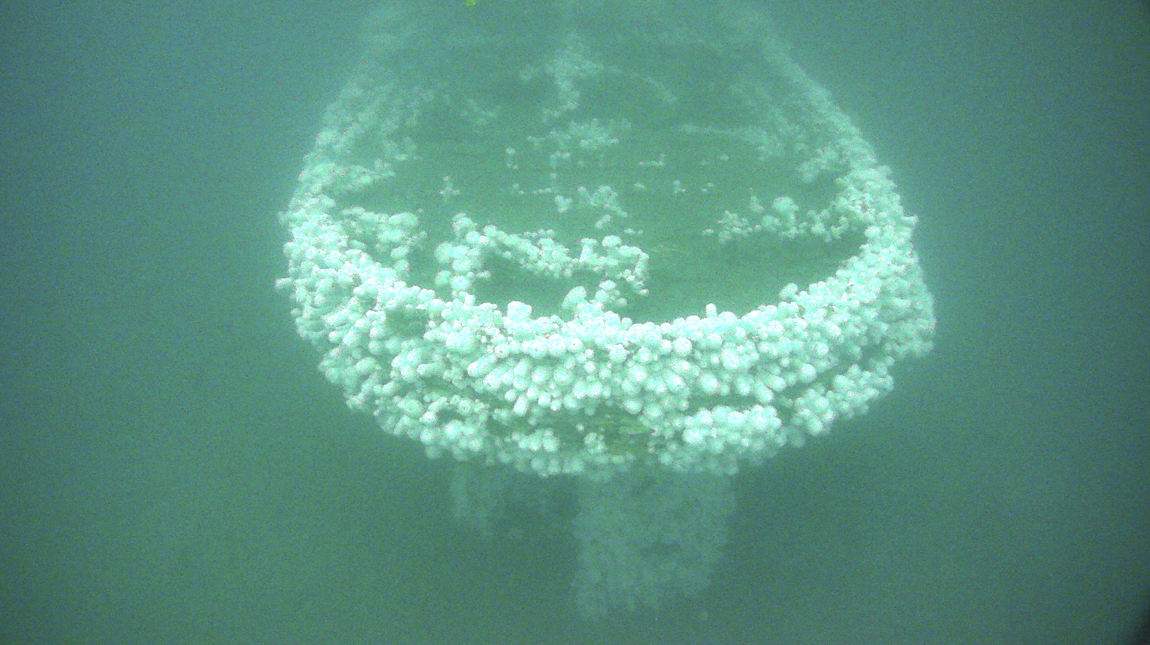 Stern view of the shipwrecked USS Conestoga (AT-54) colonized with white plumose sea anemones contrasting the water column. On 23 March 2016, NOAA's Office of National Marine Sanctuaries (ONMS) and the U.S. Navy announced the discovery of the wreck of USS Conestoga (AT-54) within the waters of Greater Farallones National Marine Sanctuary in California. The discovery by the ONMS Maritime Heritage Program solves a 95 year-old mystery. Conestoga sailed from San Francisco Bay on 25 March 1921 and vanished with 56 men. Until 2016, what happened, and where the wreck and its crew lay, has been described as one of the top maritime mysteries in U.S Navy history. Conestoga's final resting place in Greater Farallones sanctuary is federally protected under the National Marine Sanctuary Act and the Sunken Military Craft Act.